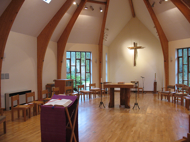 Turvey Abbey: chapel interior The Chapel at Turvey Abbey was built in 1991 for the use mainly of the resident religious community and visiting retreatants. The Sunday Mass also attracts Catholic worshippers from the surrounding area.